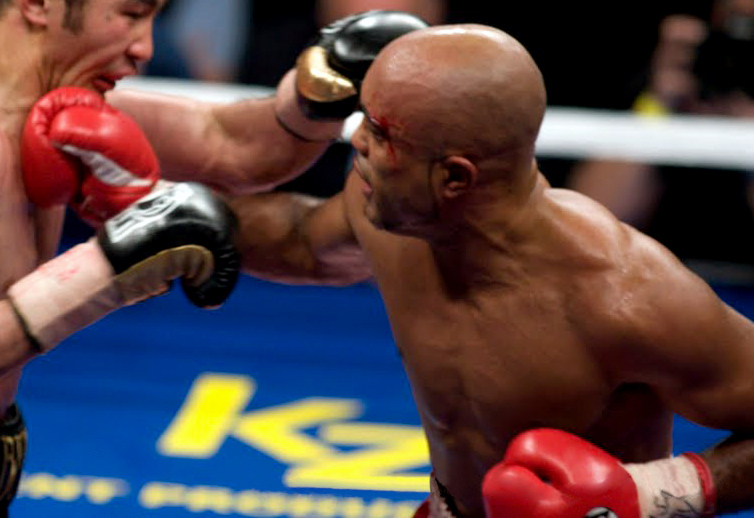 Gabriel Campillo fighting against Beibut Shumenov at the Hard Rock Hotel and Casino on January 29, 2010.